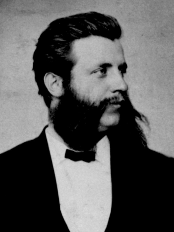 Valentin Oswald Ottendorfer (1826-1900) - german Philantropist born in Svitavy (Czech Republic) and living in New York